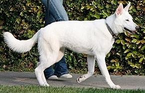 White German Shepherd walking